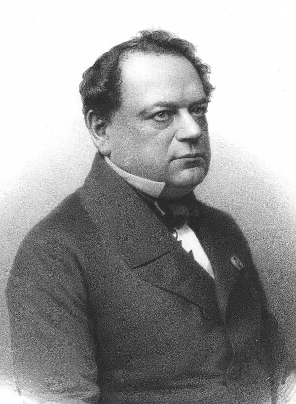 Portrait of Moritz Hermann von Jacobi (1801–1874), a Prussian scientist who worked mostly in Russia. Jacobi is noted for his invention of galvanoplasty (electrotyping) in 1838 and for work on electric motors and telegraphy.